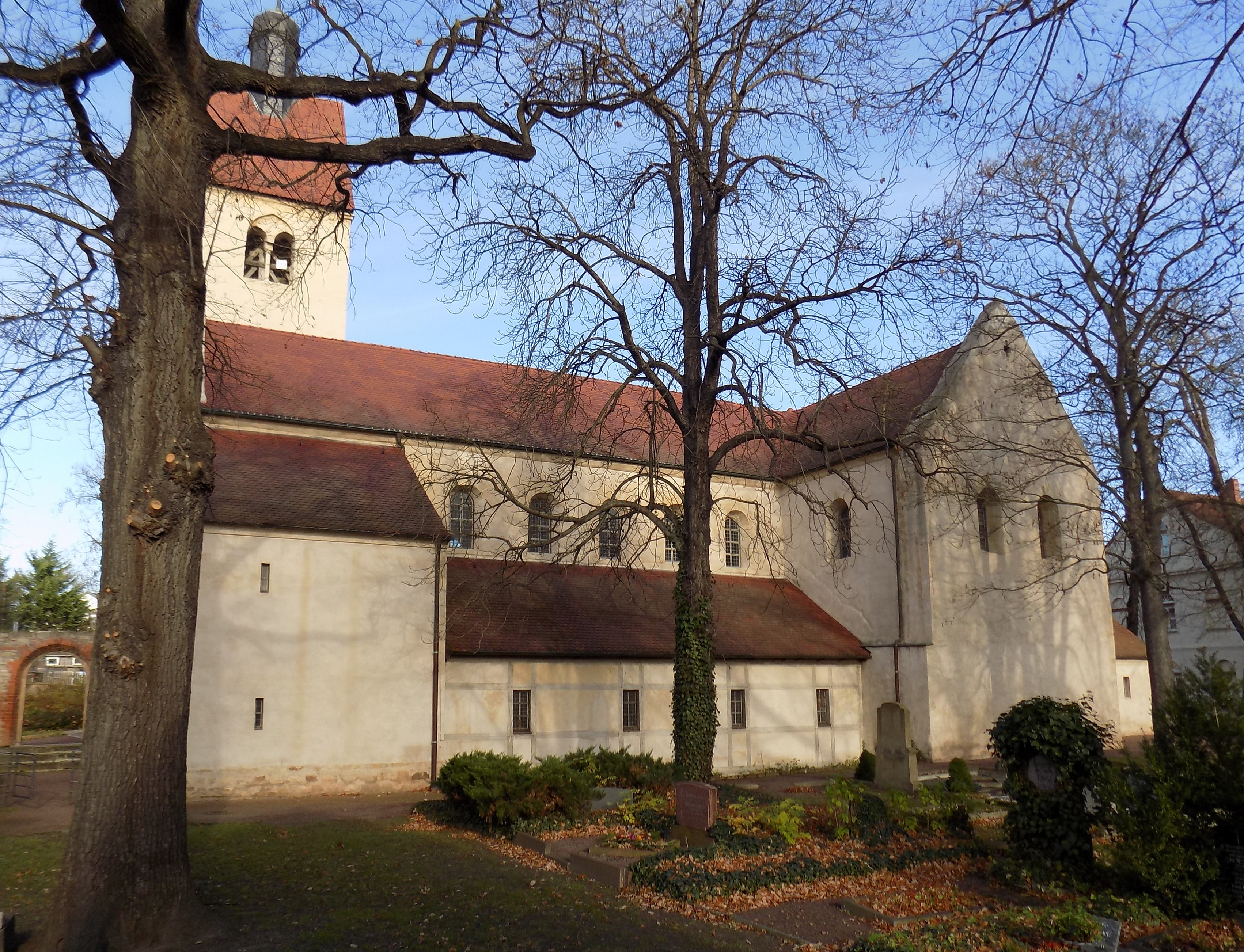 St. Thomas Church in the Neumarkt quarter of Merseburg (district: Saalekreis, Saxony-Anhalt)